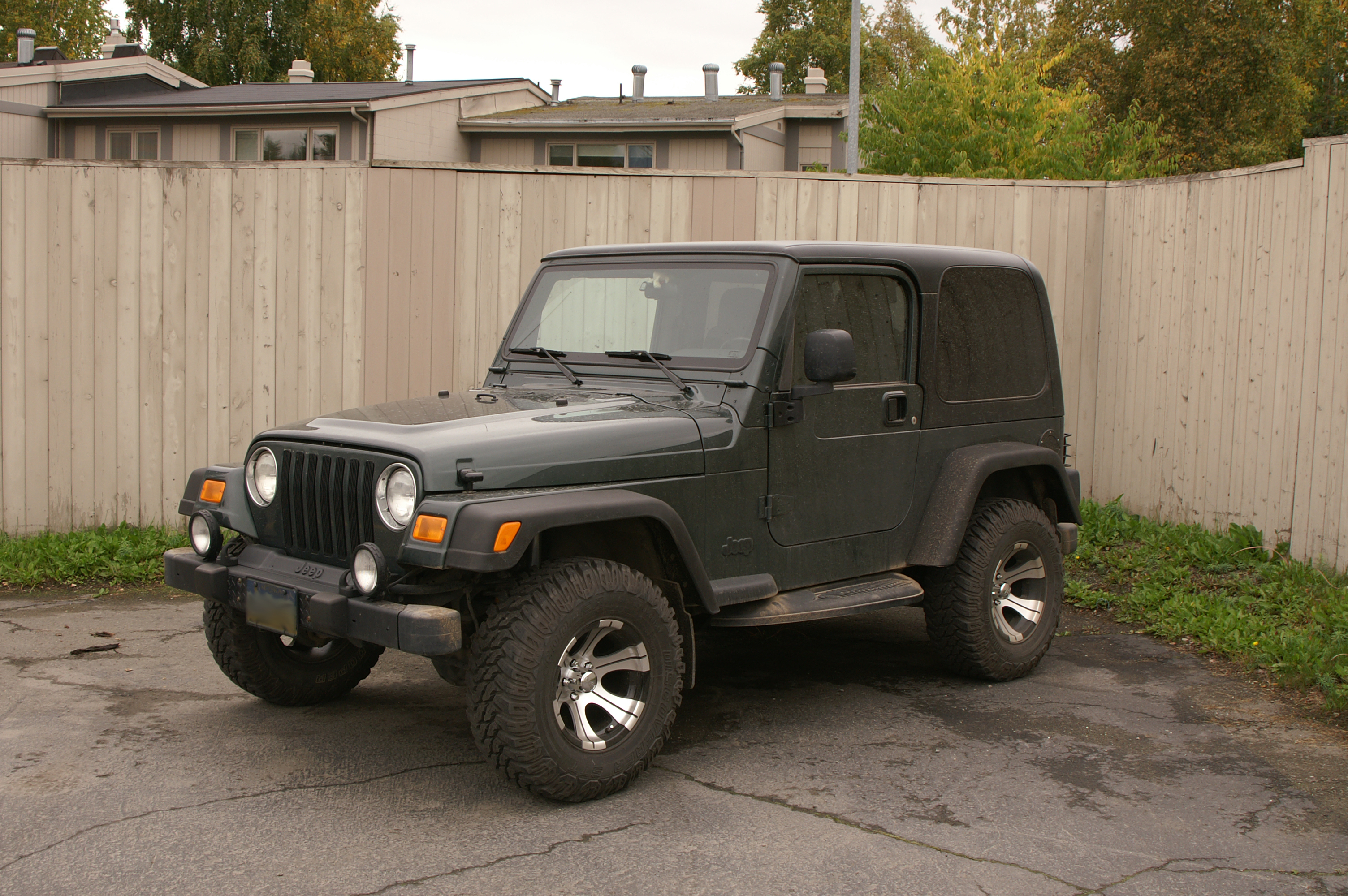 '03 Jeep Wrangler Sport